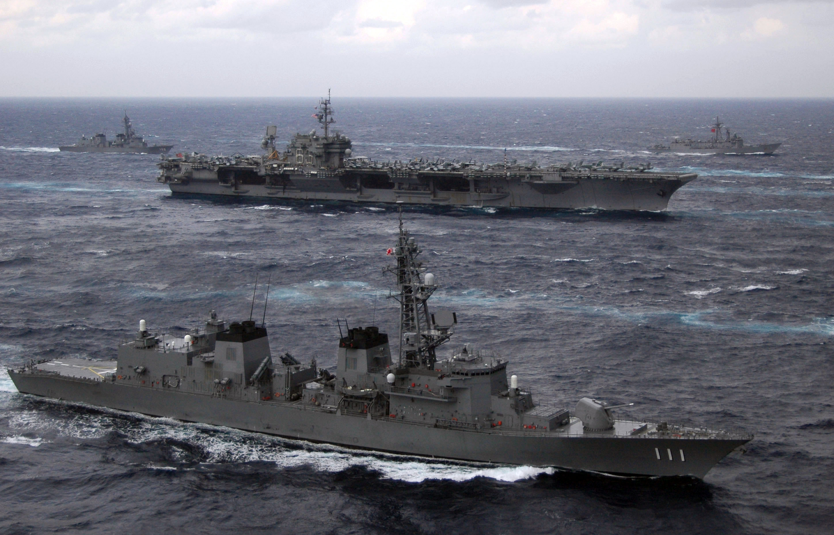 Pacific Ocean (Nov. 15, 2005) - The Japan Maritime Self-Defense Force (JMSDF) destroyer JDS Ōnami (DD 111) sails in formation with other JMSDF ships and ships assigned to the USS Kitty Hawk Carrier Strike Group. The Kitty Hawk Carrier Strike Group is currently conducting the bilateral Annual Exercise 2005 (ANNUALEX) with Japan Maritime Self-Defense Force. ANNUALEX focuses on improving the military-to-military relationship between the U.S. and Japan. The purpose of ANNUALEX is to improve bilateral interoperability, defend Japan against maritime threats and to improve capability for surface warfare, air defense and undersea warfare. U.S. Navy photo by Chief Photographer's Mate Todd Cichonowicz (RELEASED)